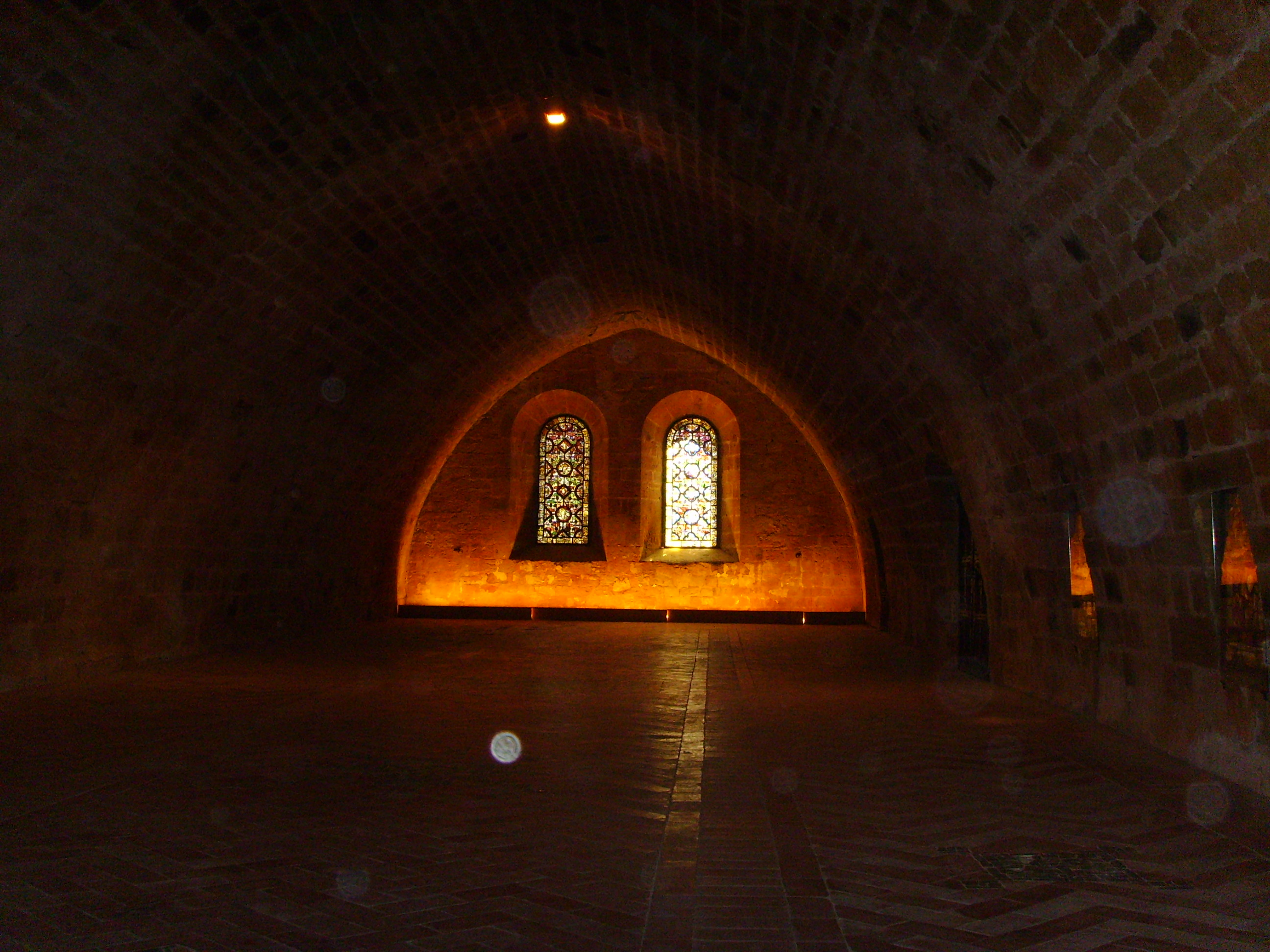 Abbaye Sainte-Marie de Fontfroide (France, southwest of Narbonne), dortoir des frères convers (dormitory of the lay brothers, Schlafsaal der Laienbrüder) author: Gerbil